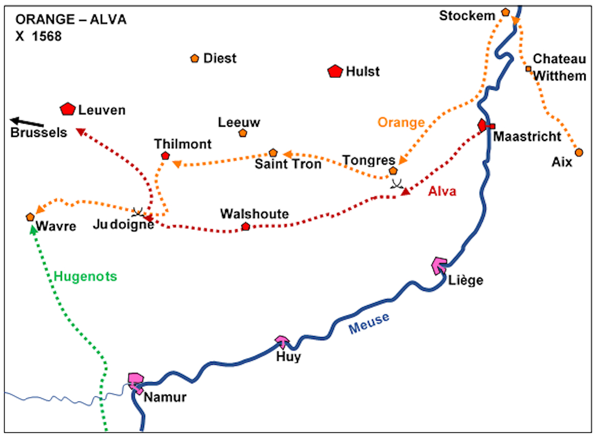 Map showing movements in campaign of Prince of Orange vs Duke of Alva October 1568 leading to Battle of Jodoigne or Slag bei Geldenaken